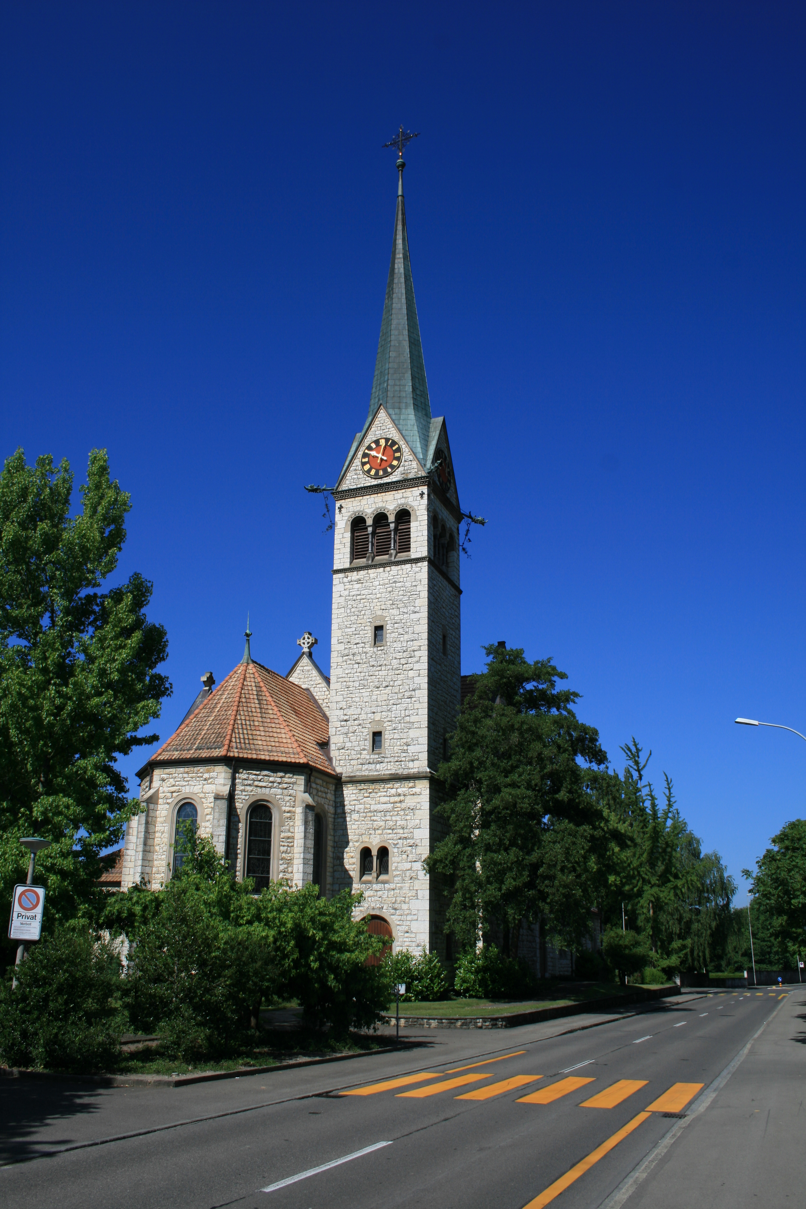 Church St. Sebastian, Wettingen, Switzerland